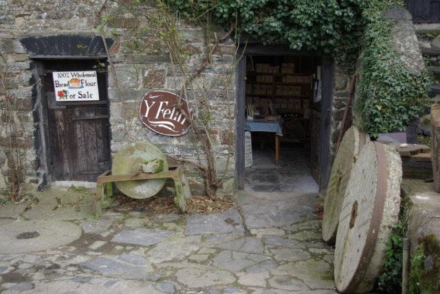 Y Felin (The Mill), St Dogmaels This is one of the last working water mills in Wales. As the notice on the door indicates, wholemeal bread flour is available for purchase.